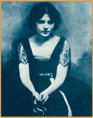 Publicity photo of Zena Keefe from Who's Who on the Screen